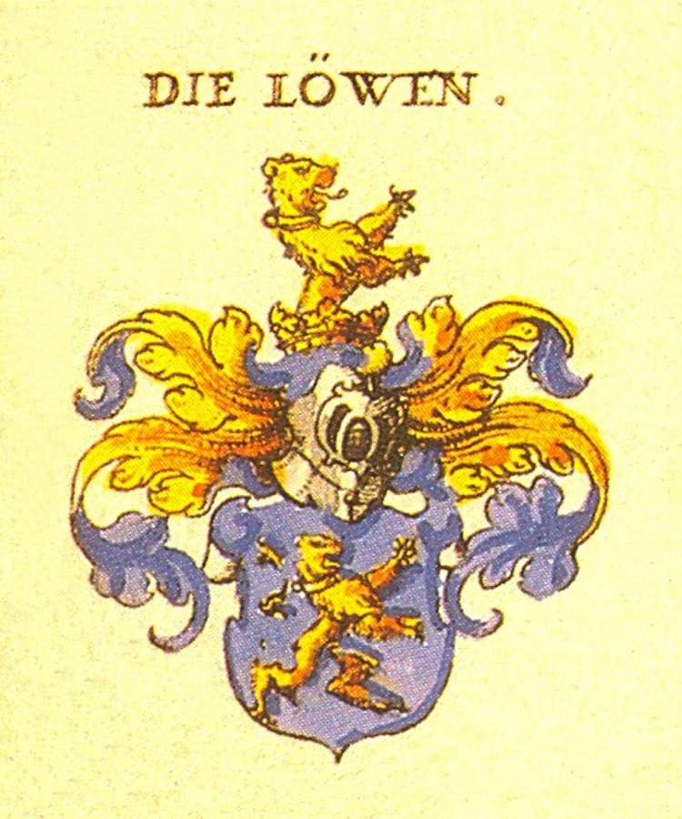 Coats of Arms of Löwen